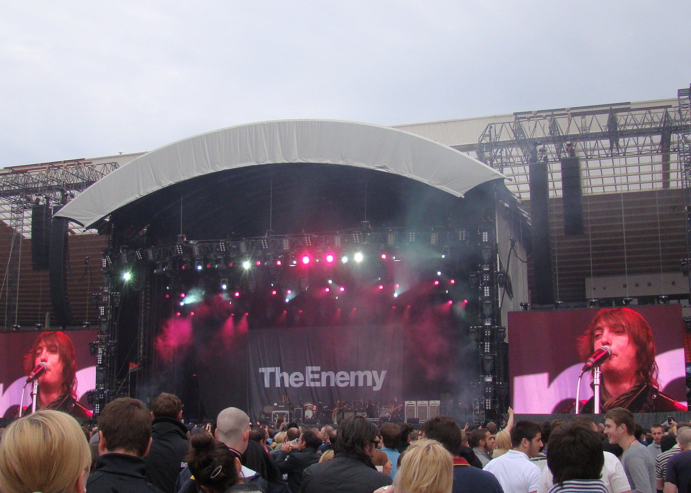 The Enemy